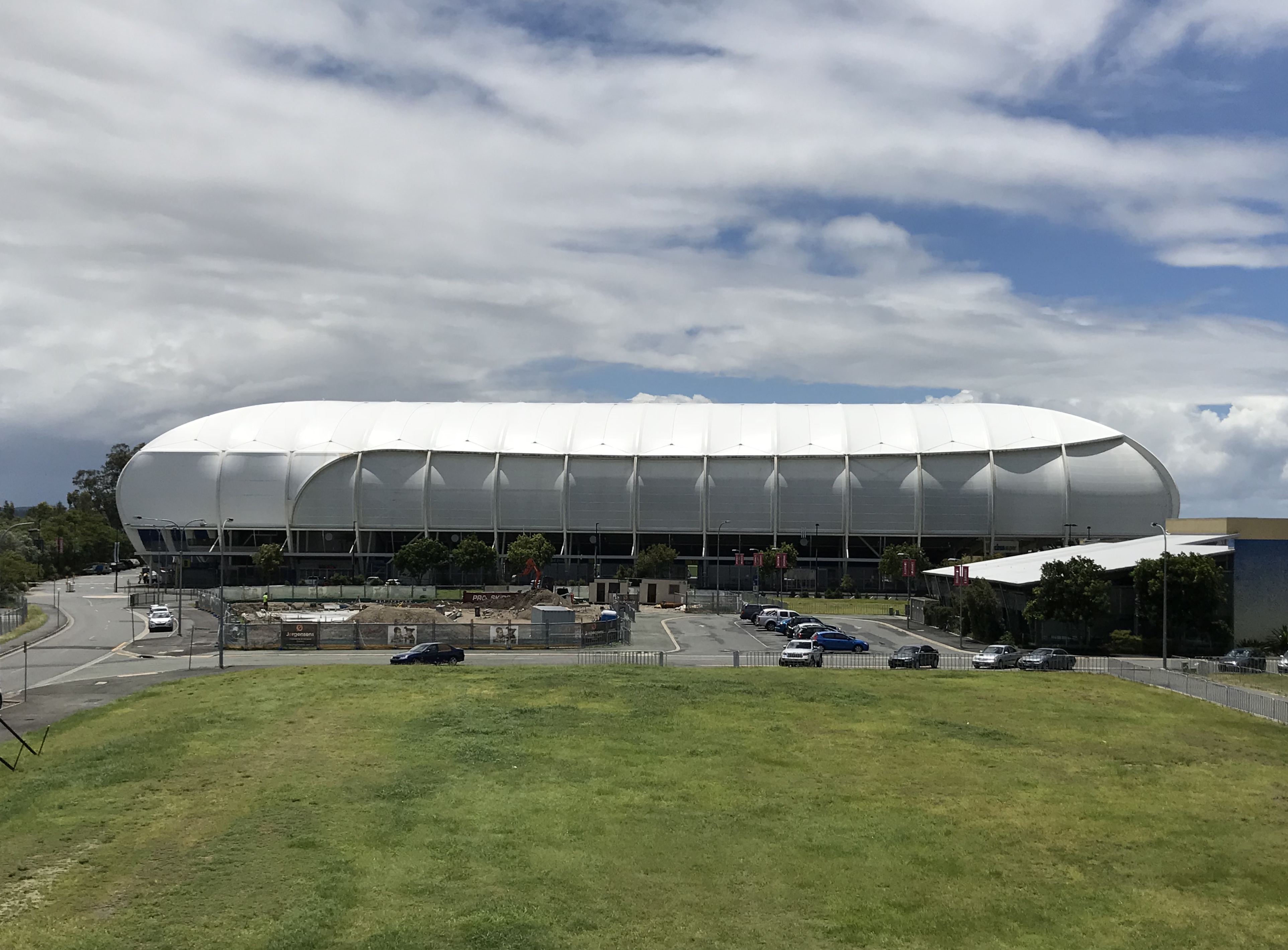 Robina Stadium, Queensland side view